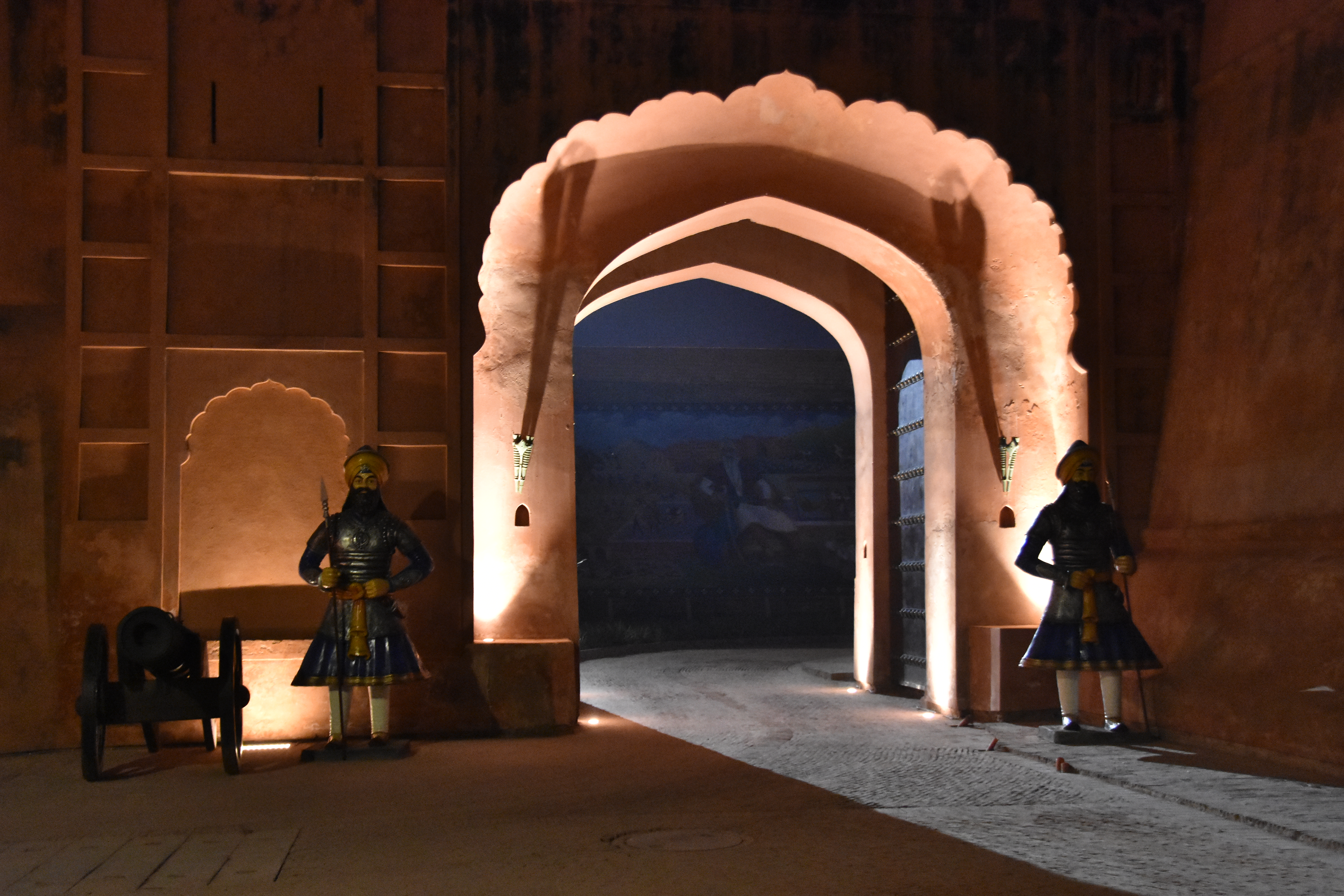 I stepped back a bit to take this slightly far view of the third inner gate of Gobindgarh Fort in Amritsar. Note that there is a sentry on either side of the entrance gate, like the lions guarding the entrance of buildings in Hong Kong! And no, those are not real men, just dummies, in the garb of the historic Sikh regiment. They do add to the atmosphere to the place, an effect probably enhanced by the darkness and the lighting. This is the last gate when we enter the Gobindgarh fort. We are now well over a kilometer from the street entrance and we have made one 90° right turn. Here now is a 92° left turn. (Amritsar, Punjab, northern India, Nov. 2017)